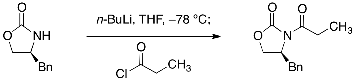 Chemdraw